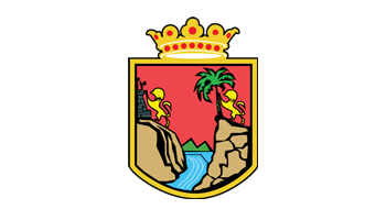 Flag of the State of Chiapas, Mexico.